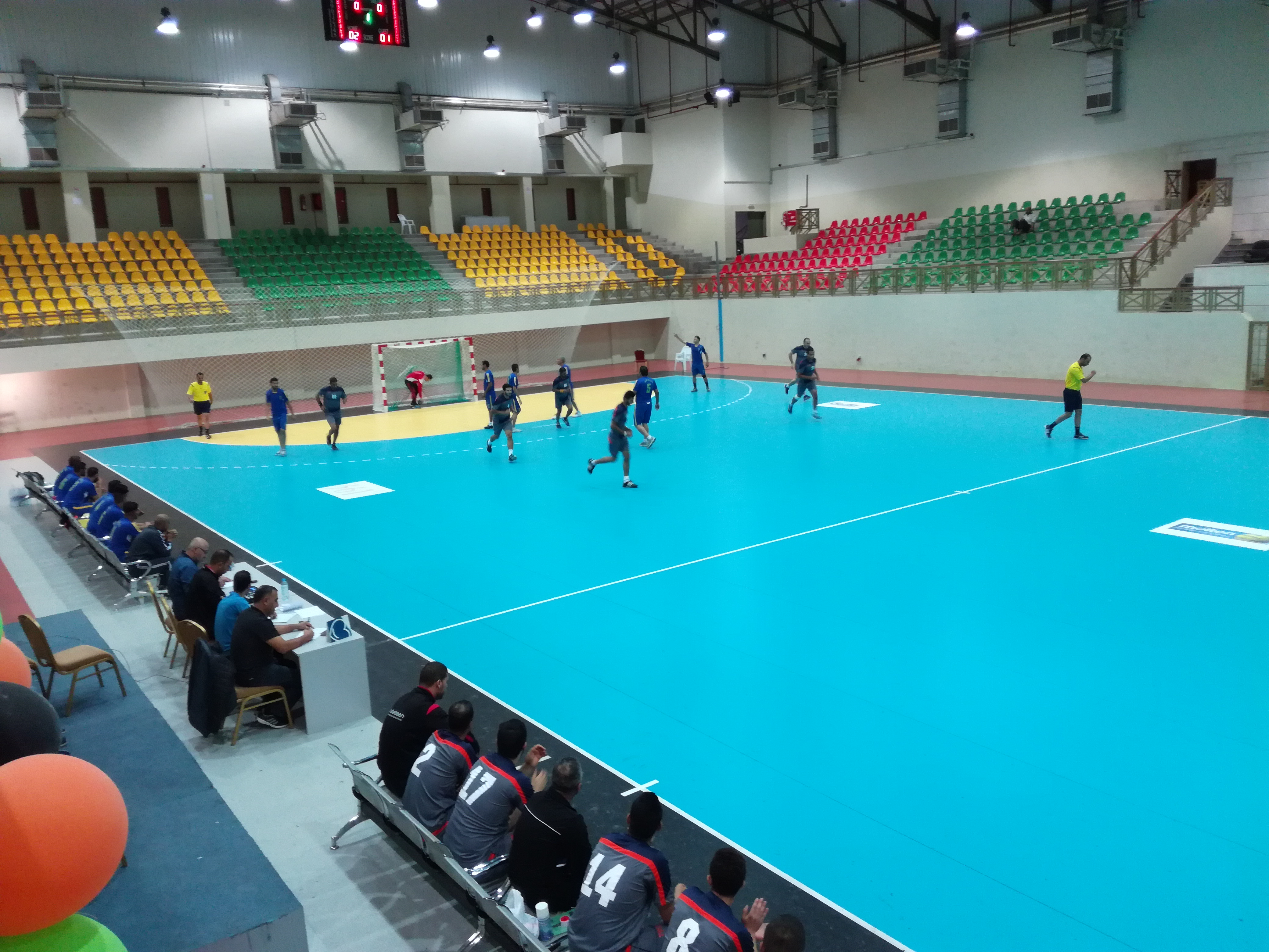 One of the handball courts at Al Hussein Sports City for youth during one of the matches